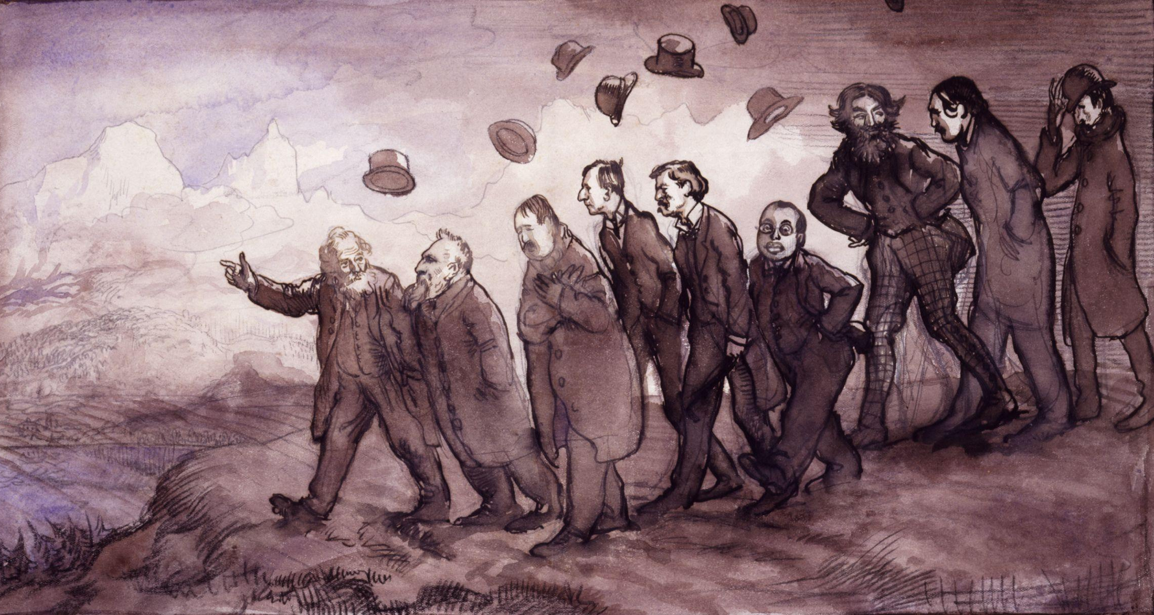 Group associated with the New English Art Club, by Sir William Orpen (died 1931).